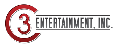 The logo of C3 Entertainment.